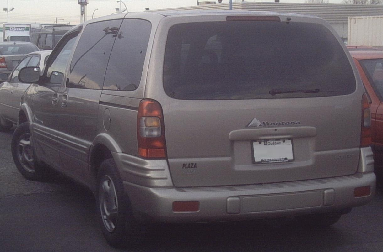 1999-2005 Pontiac Montana SWB photographed in Montreal, Quebec, Canada.